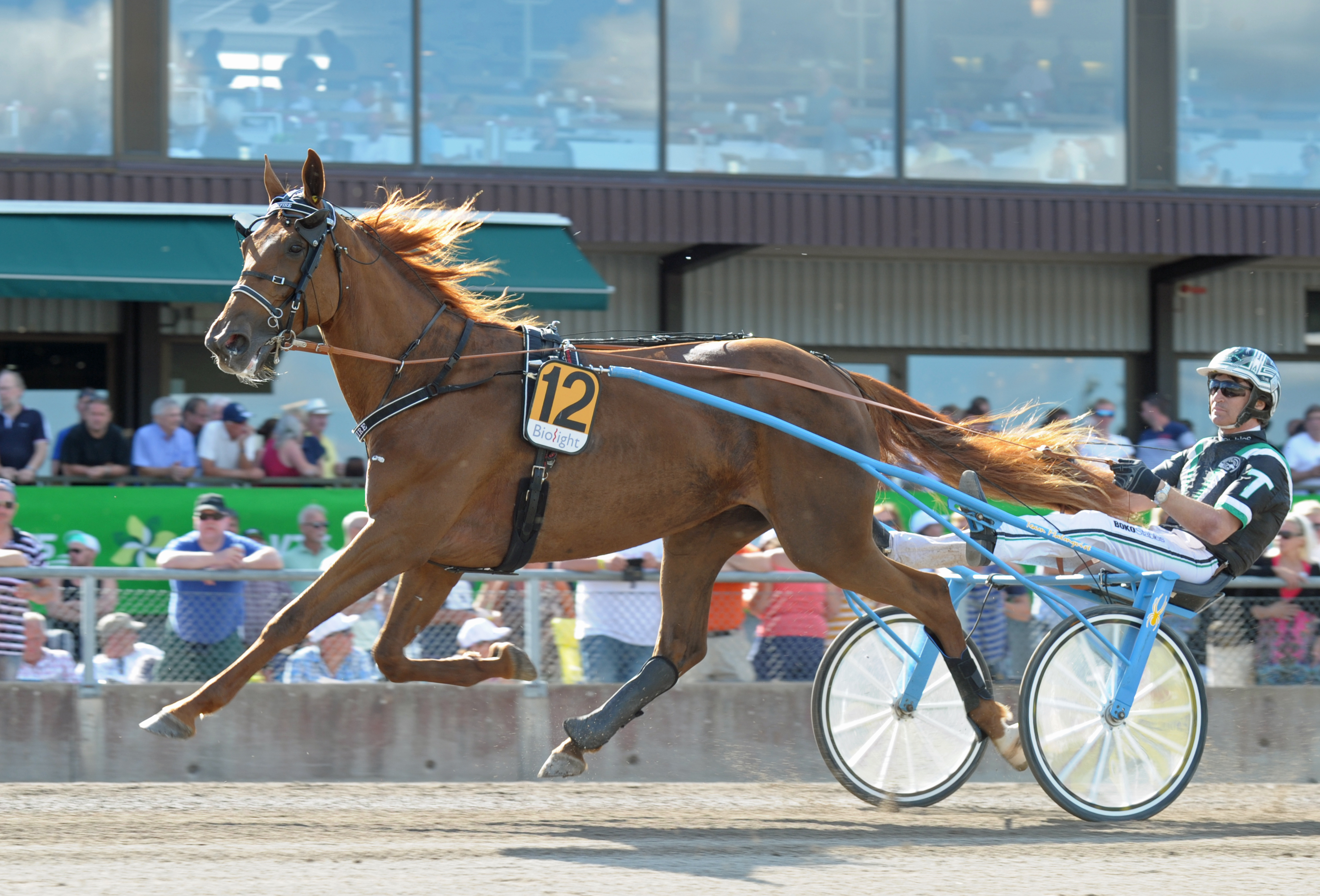 Trotting horse Backfire and driver Johnny Takter.